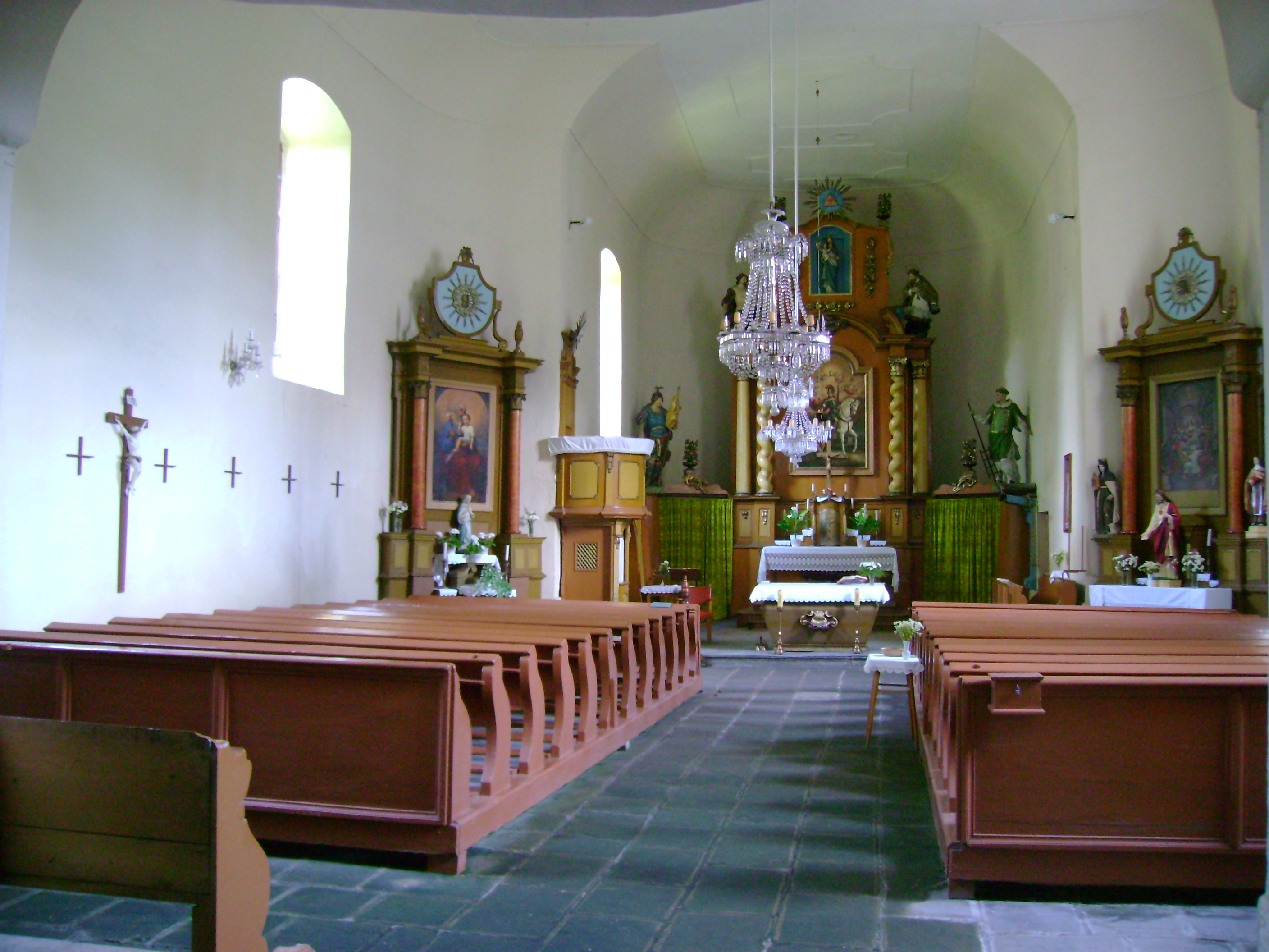 Church of Saint Martin in Zlatá Olešnice in Jablonec nad Nisou District in the Liberec Region of the Czech Republic – interior.